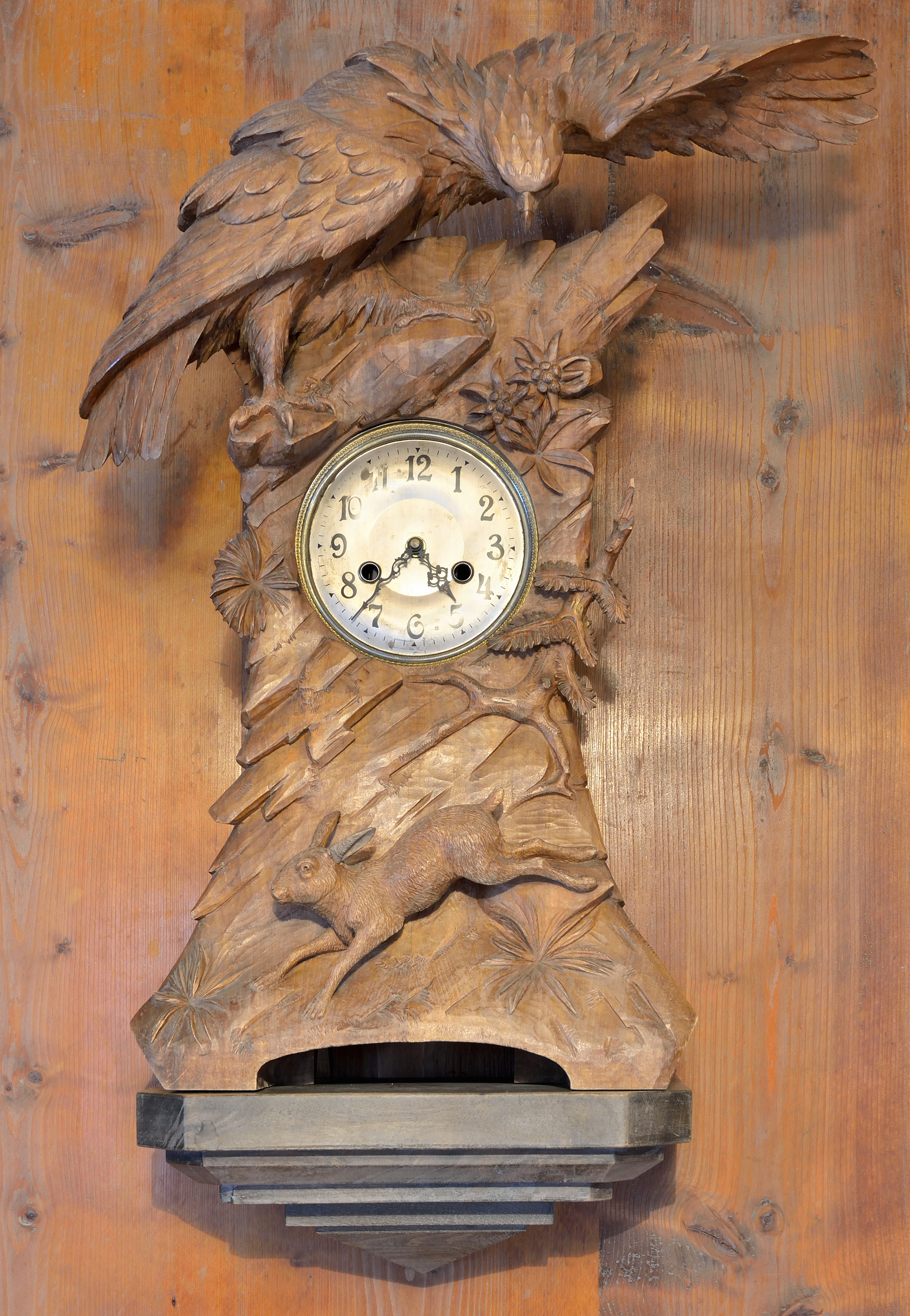 Woodcarved so called "black forest" clockstand around 1900 from Brienz Switzerland.